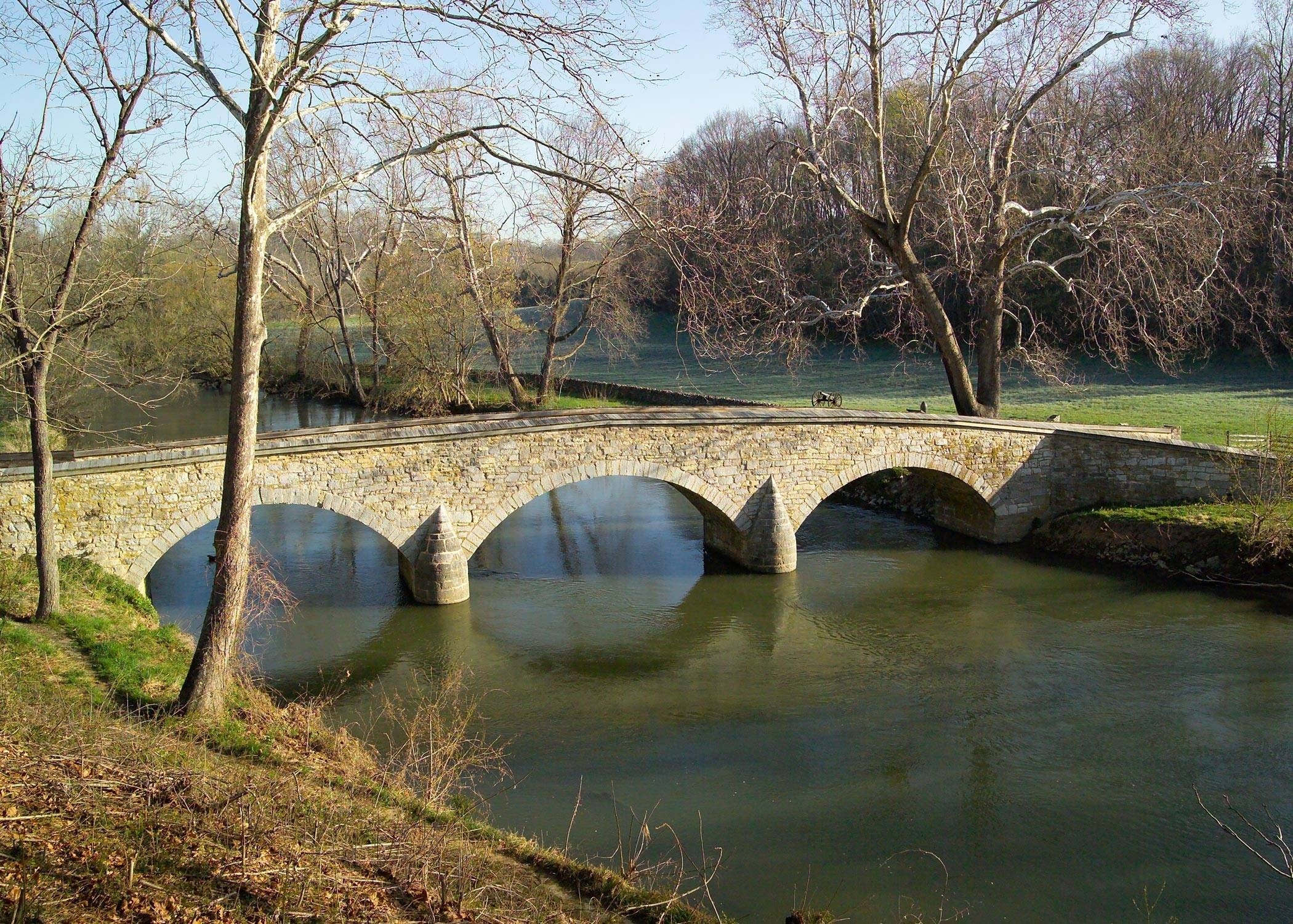 Current view of Burnside’s Bridge, Antietam National Battlefield.